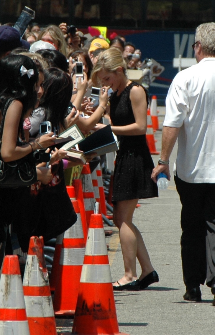 Emma Watson signing autographs for fans outside of Grauman's Chinese Theater.